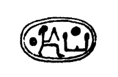 Drawing by Flinders Petrie of a scarab of pharaoh Shepseskare, obscur ruler of the mid 5th Dynasty of Egypt.